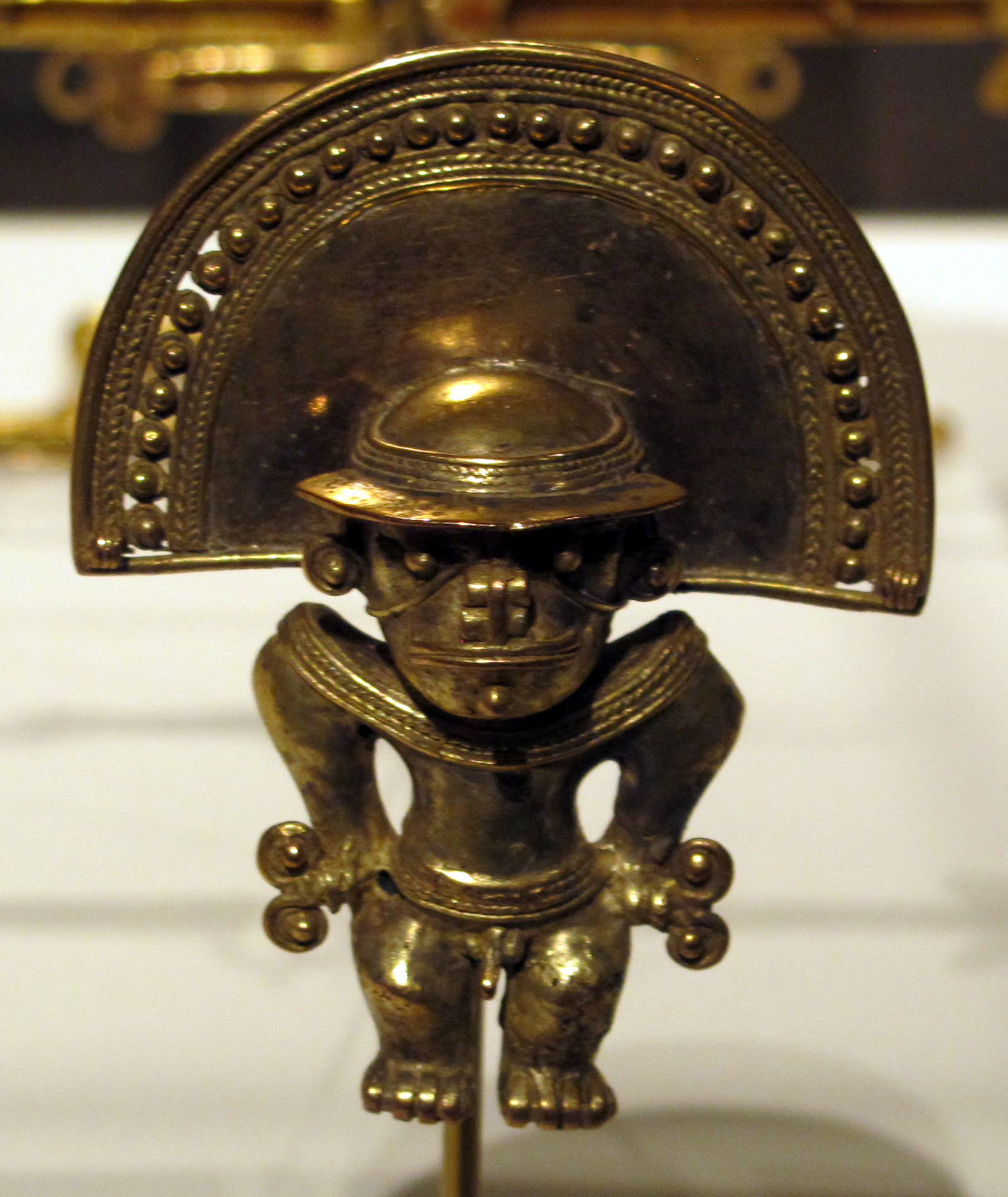 Pre-Columbian jewellery in the Metropolitan Museum of Art